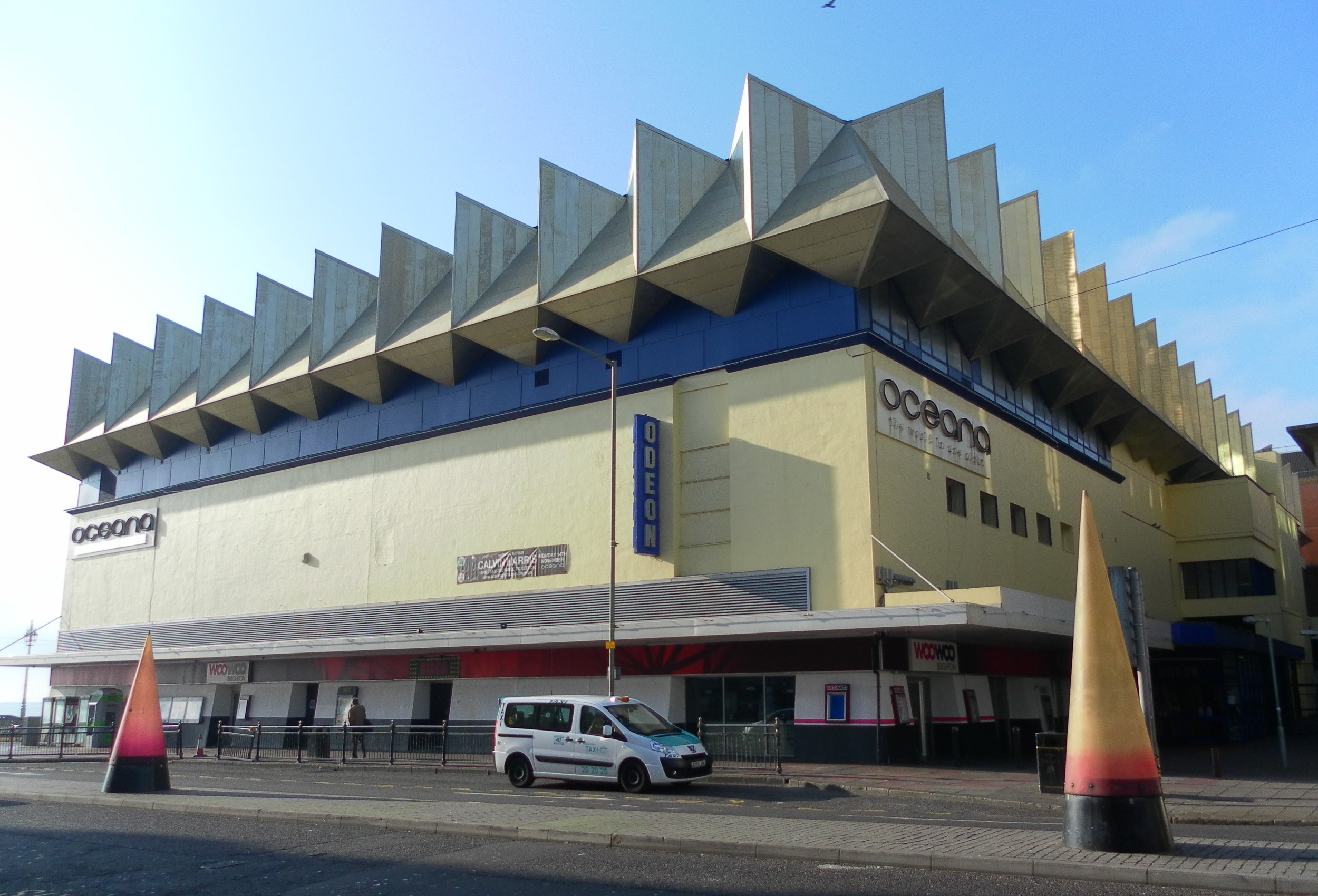 Brighton Odeon Kingswest Cinema, Junction of Kings Road and West Street, Brighton, City of Brighton and Hove, England. Built in 1973 on this prominent seafront site. The Brighton Centre adjoins to the left.